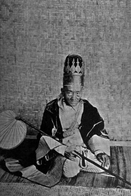 Myowun of Mandalay in court dressTitle: သီရိမဟာဇေယျဂါမဏိဘွဲ့ခံ မြို့တော်ဝန်ဦးပေစိ